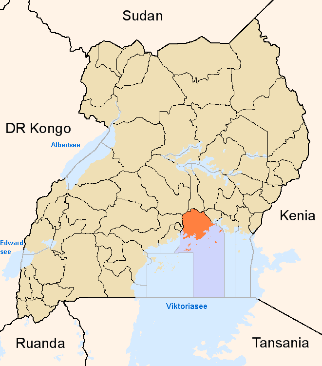 Map showing the position of the district Mukono in Uganda.